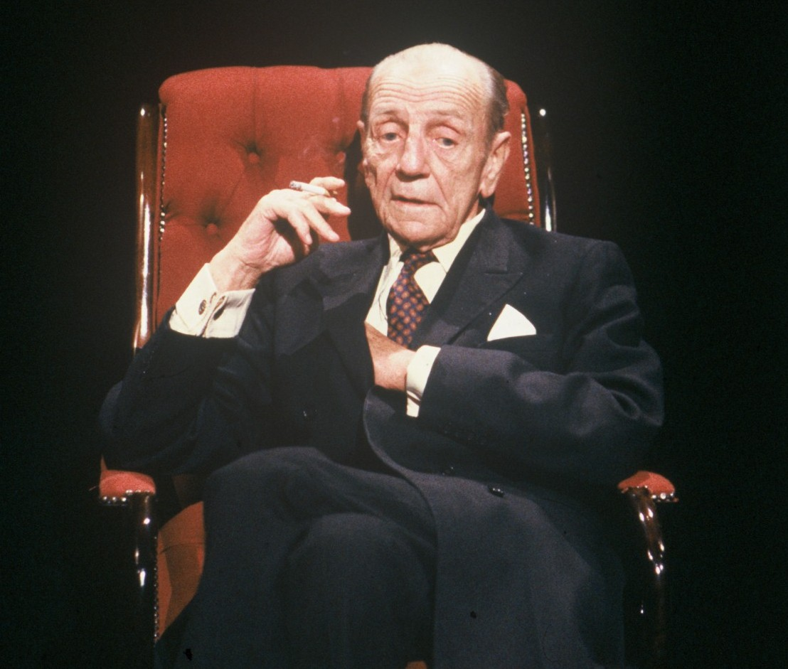 Hilary Hook appearing on television programme After Dark on 12 June 1987, (c) Open Media Ltd 1987